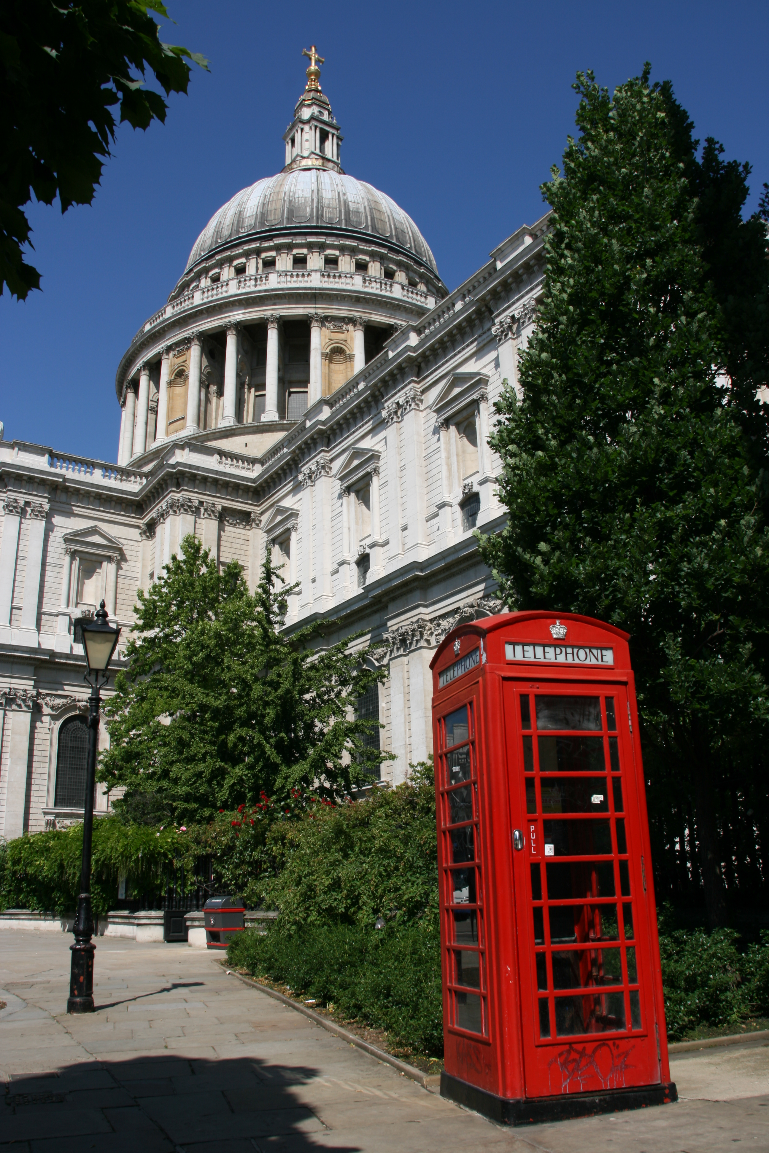 St Paul's Cathedral, London. Designed by Sir Christopher Wren, built 1677-1708.